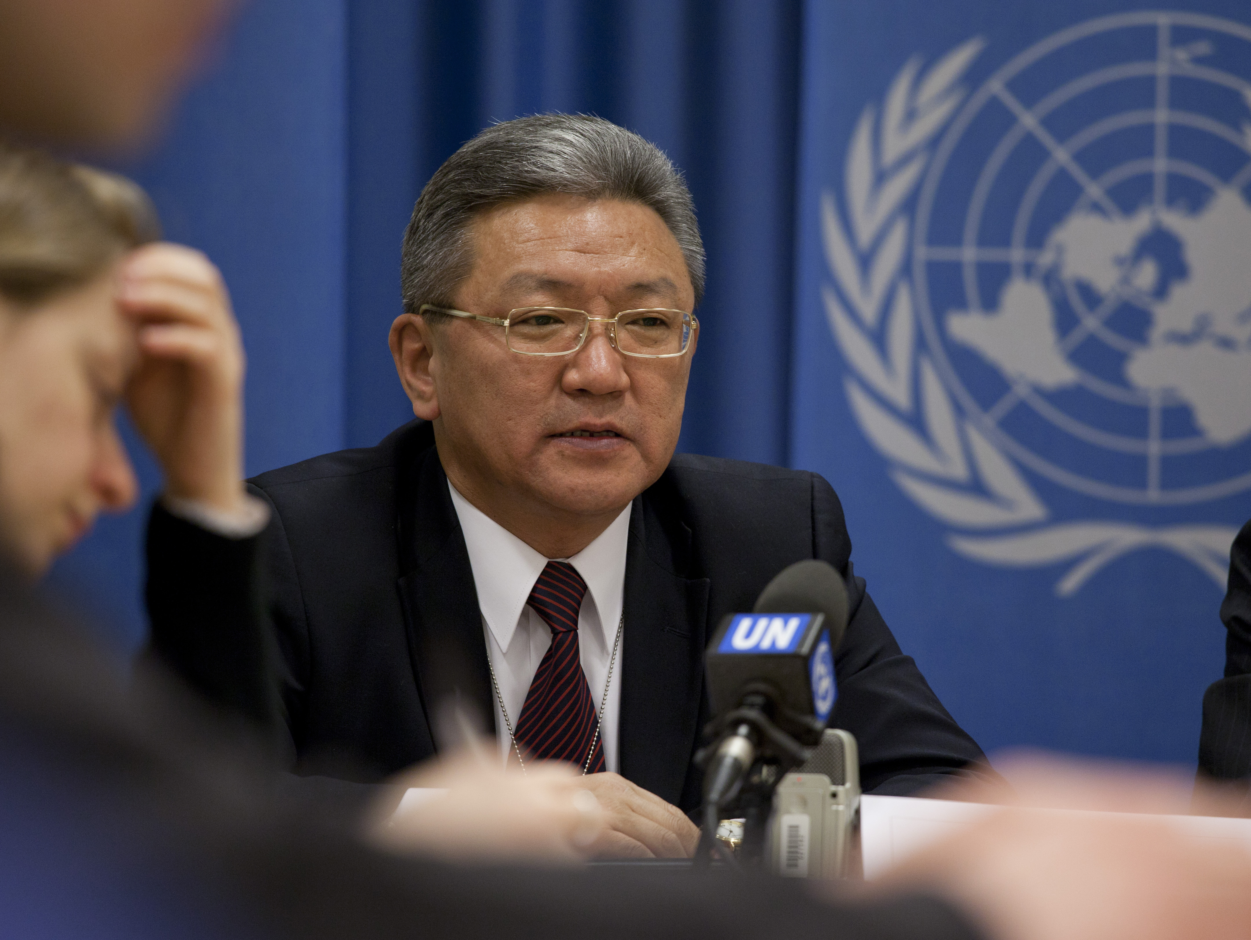 Press Briefing at the United Nations in Geneva on the Community of Democracies with: •Dr. Tomicah TILLEMANN, Senior Advisor for Civil Society and Emerging Democracies, Head of U.S. Delegation to the Community of Democracies meeting •Ms. Maria LEISSNER, Ambassador for Democracy, Sweden •Mr. Suren BADRAL, Ambassador-at-Large to the Community of Democracies, Mongolia The Community of Democracies governing council met March 1-2 in Geneva. U.S. Mission Photo by Eric Bridiers